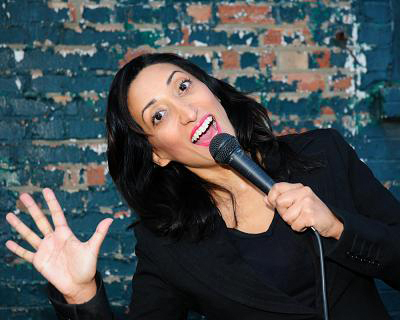 Shazia Mirza